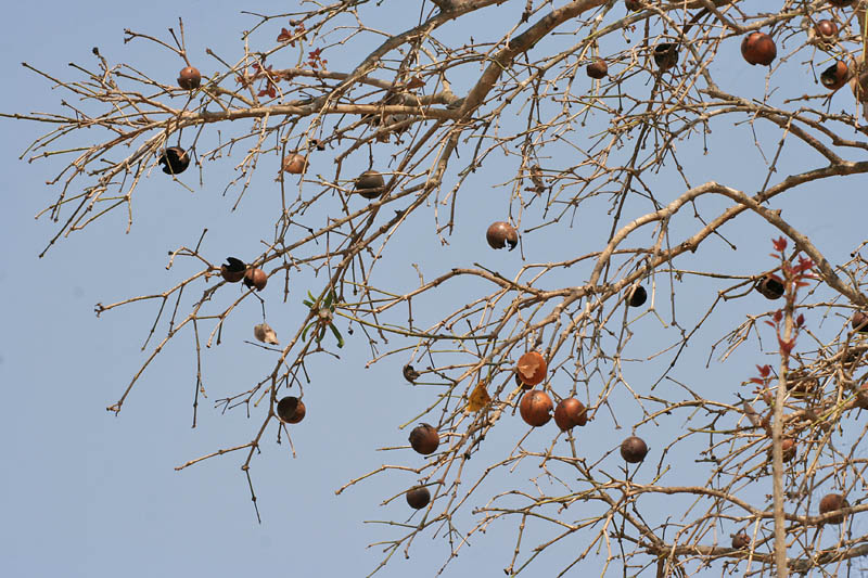 Poison Nut, Semen strychnos, Quaker Buttons, Strychnine tree or Nux vomica Strychnos nux-vomica in Kinnerasani Wildlife Sanctuary, Andhra Pradesh, India.